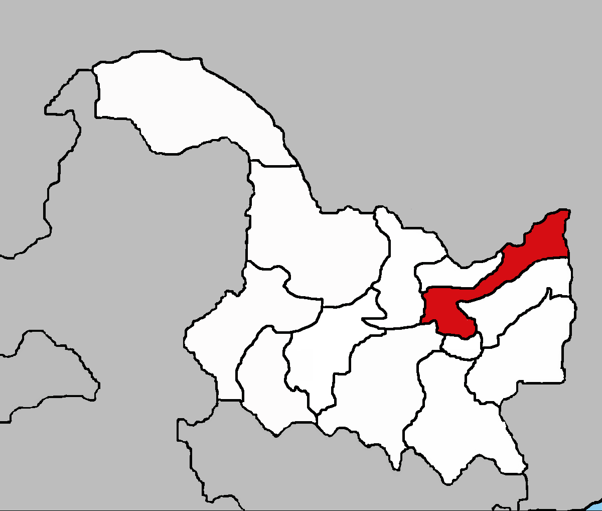 Map of Jiamusi Prefecture — Heilongjiang Province, China